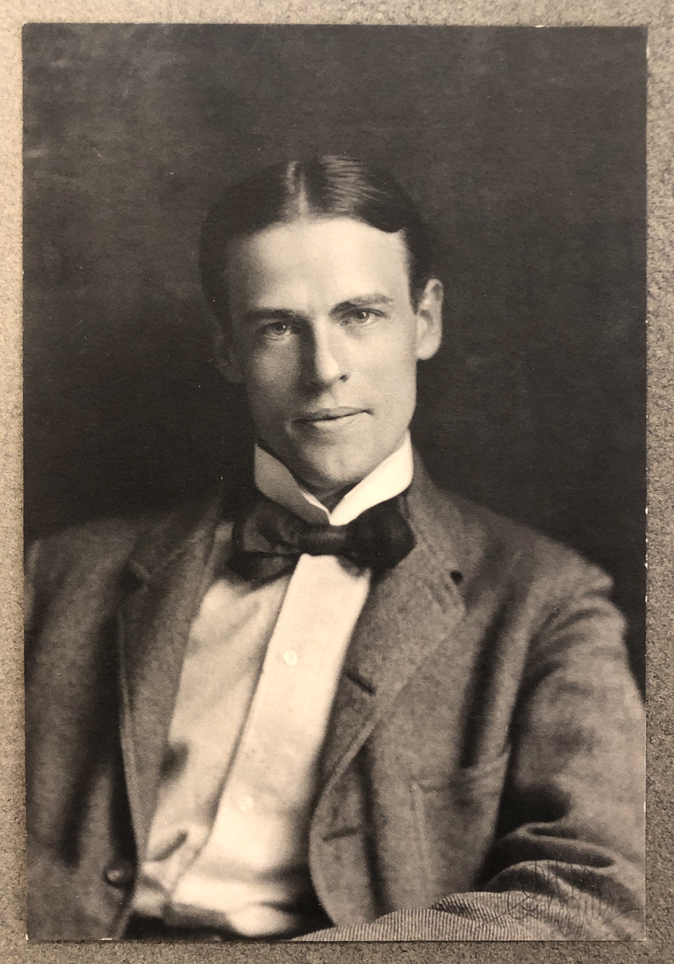 Alfred LeRoy Hodder in 1891